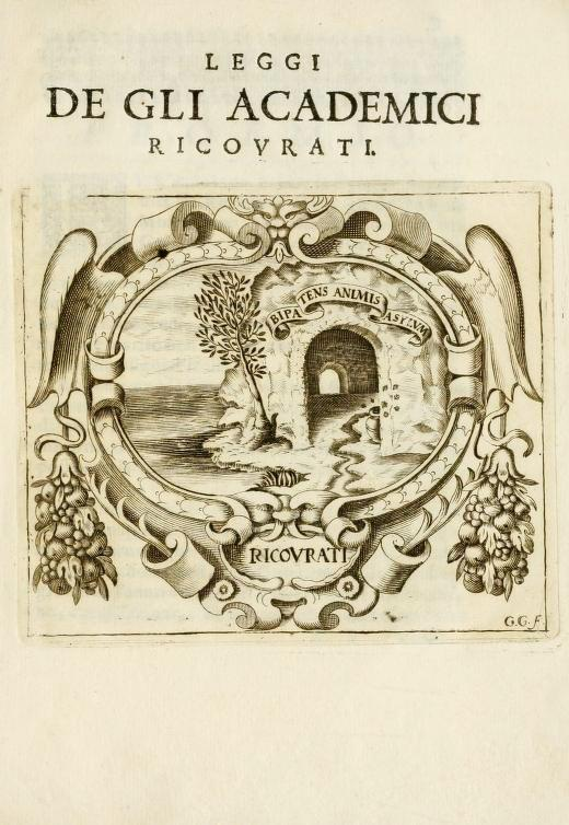 Title page of the rules of the Accademia dei Ricovrati, Padua (1648)